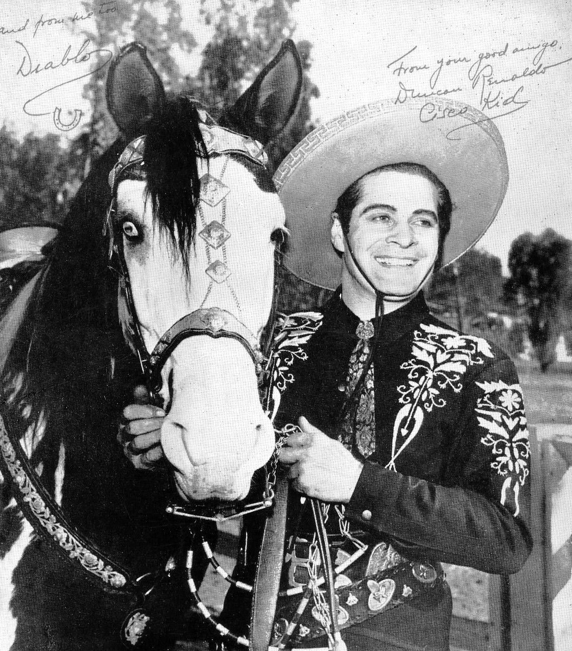 Black-and-white publicity photo of Duncan Renaldo (April 23, 1904–September 3, 1980) as The Cisco Kid and his horse, Diablo. This photo was distributed at personal appearances over many years. Because the Circus Store photo has a date and I couldn't view the back of it, a copyright search was done at for any possible renewals. There were no results for B & I and no renewal results for "Cisco Kid". Although it appears there was no copyright on the photo, a non-renewal license appears to be the best choice.